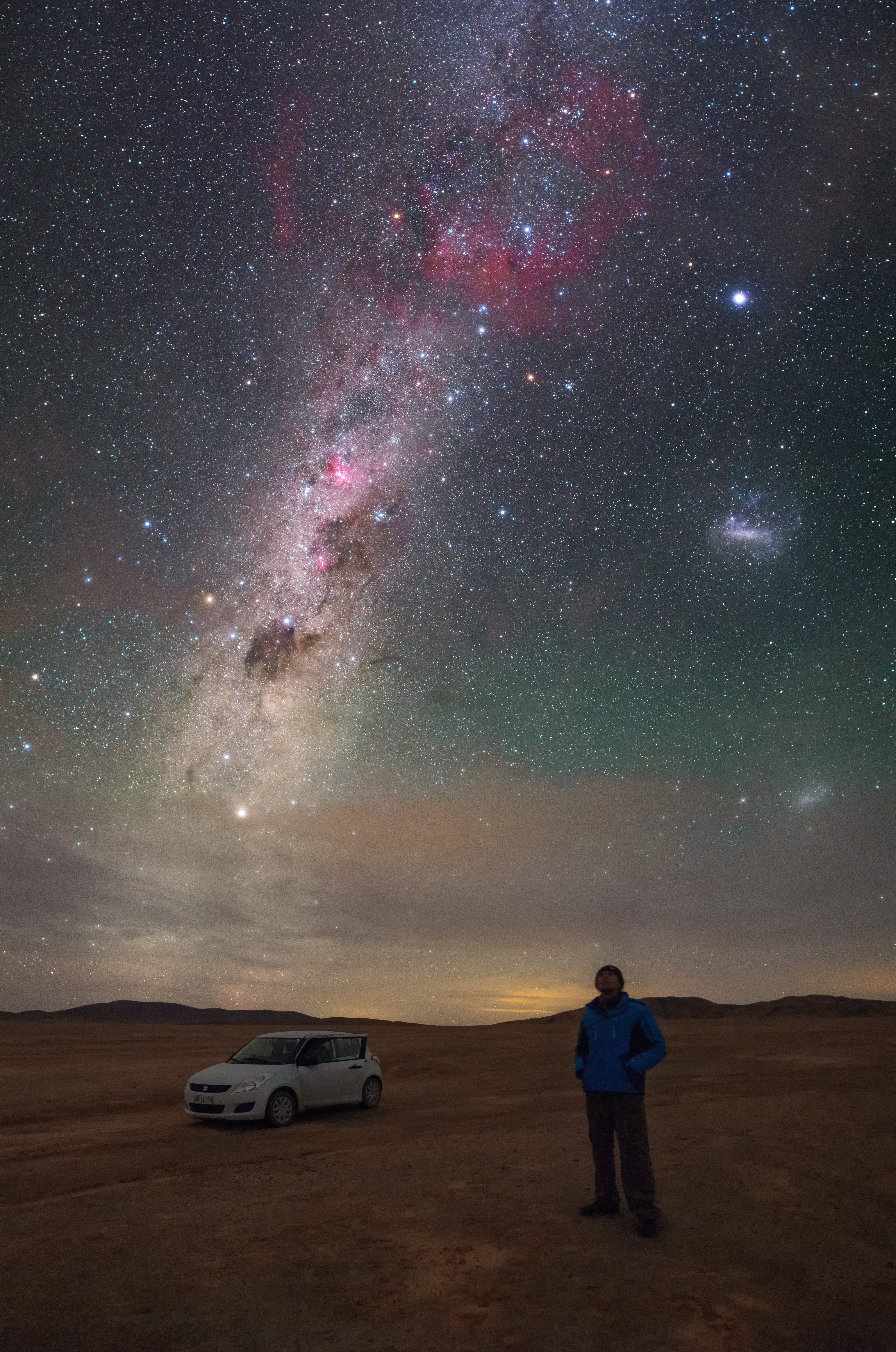 A man steps out of his car to enjoy the view somewhere in the Atacama. The band of the Milky Way extends the height of the sky, which is spectacularly layered with stars and clouds of gas and dust, extending in the general direction of our galaxy's heart. The small and large Magellanic Clouds, which lay outside the Milky Way, can also be seen to the right of the frame. The brightest star visible on the top right part of the image is Canopus, in the constellation of Carina. The scene creates a palpable sense of the cosmic fishbowl we call home.